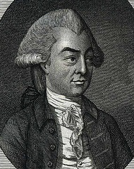 Wills Hill, 1st Marquess of Downshire, statesman